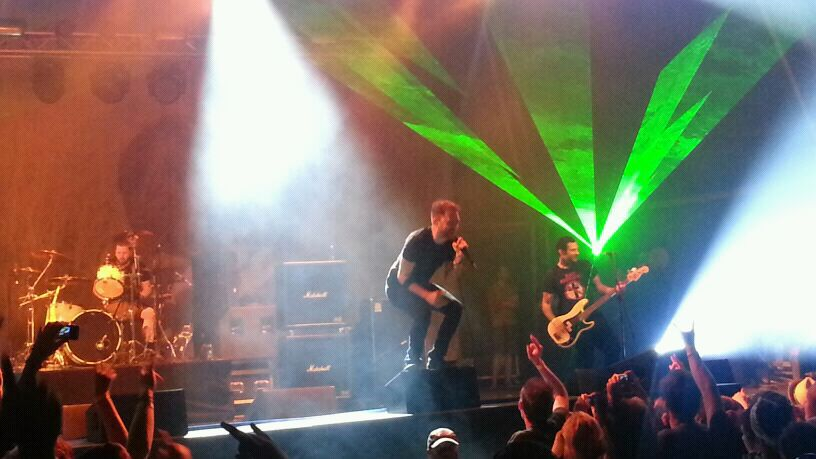 An image of the Chicago punk band Rise Against taken at their performance in Johannesburg, South Africa as part of the RAMFest series of concerts.